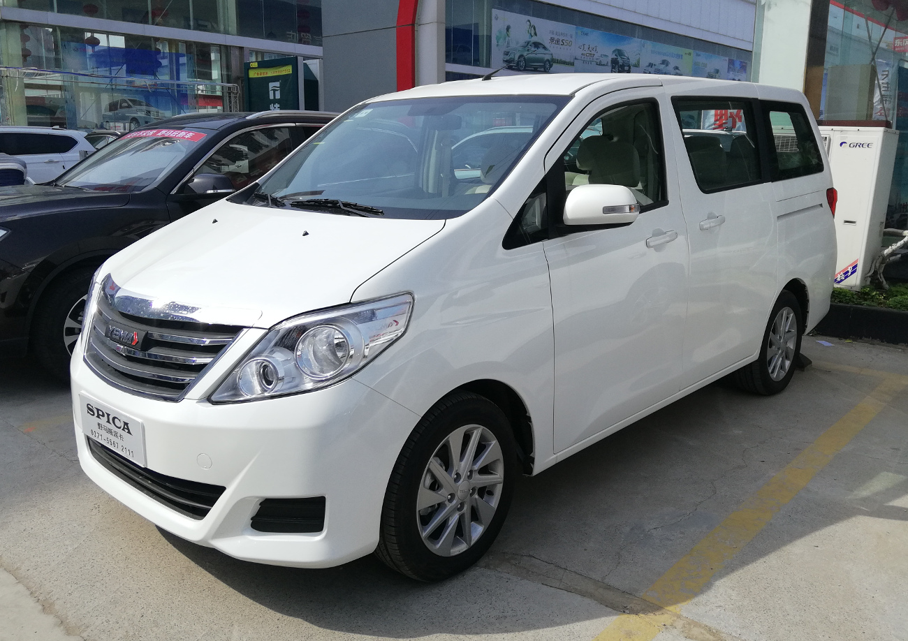 Yema Spica photographed in Zhengzhou, Henan province, China.